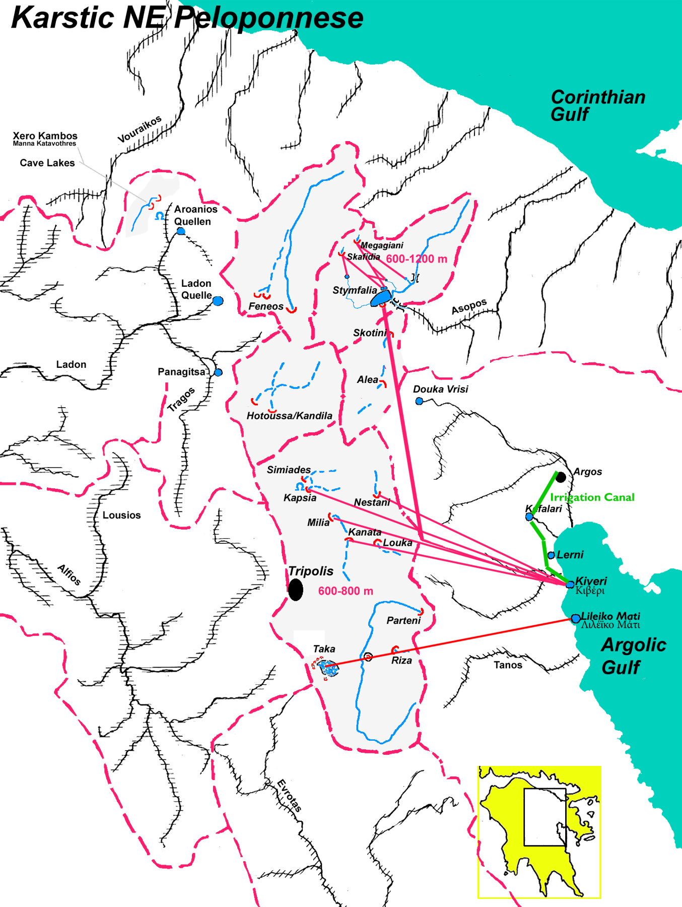 karst and karst conduits Peloponnese. Main karst conduits of two catchment areas to submarine Karst spring "Kiveri", Argolic Gulf.